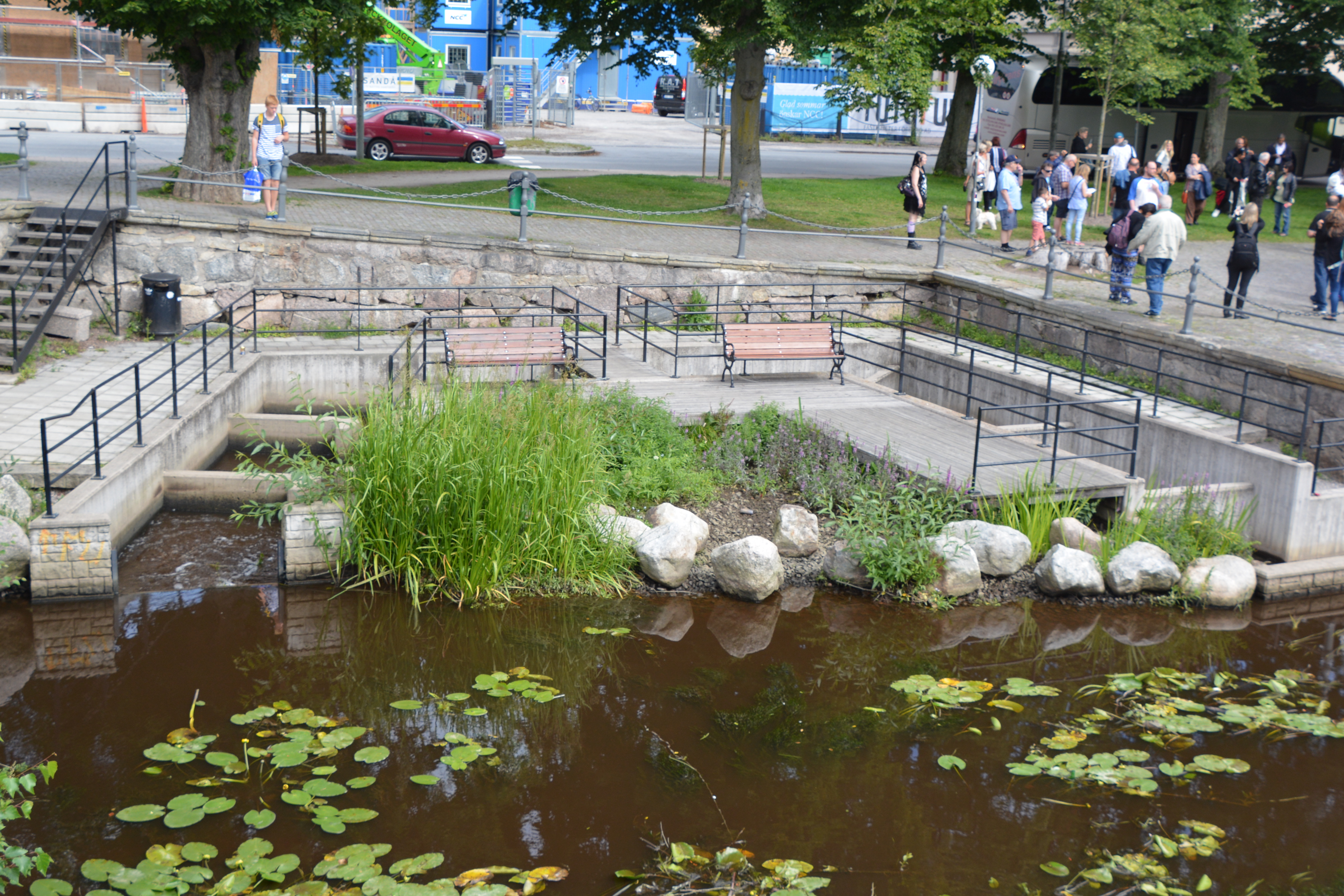 Fish ladder in Svartån, Örebro close to Örebro castle